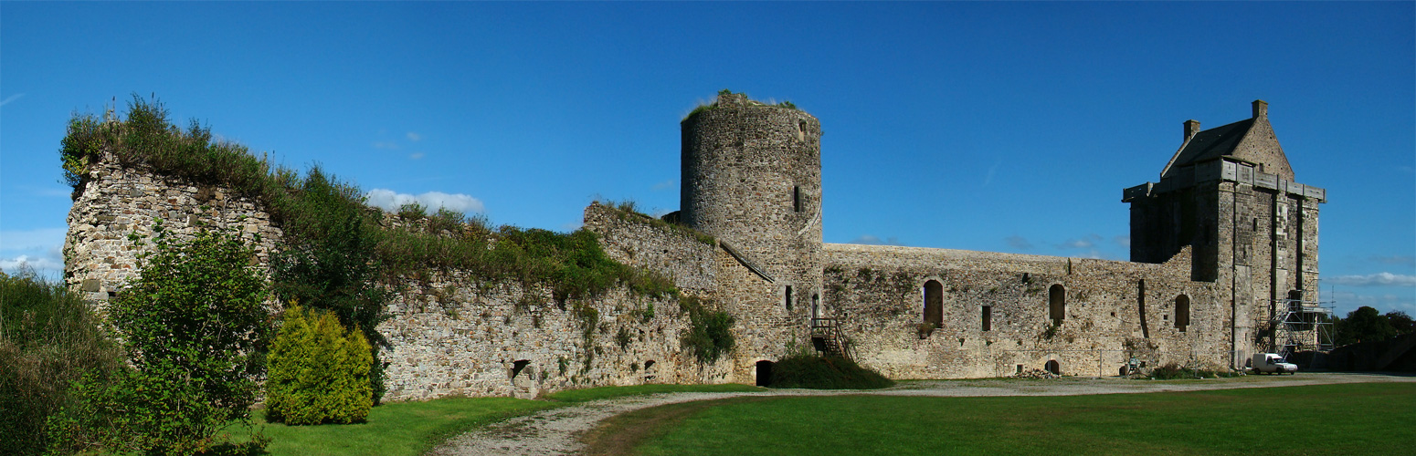 Saint-Sauveur-le-Vicomte, Manche, Normandie, France. Ruins of the 11-12th Centuries castle.